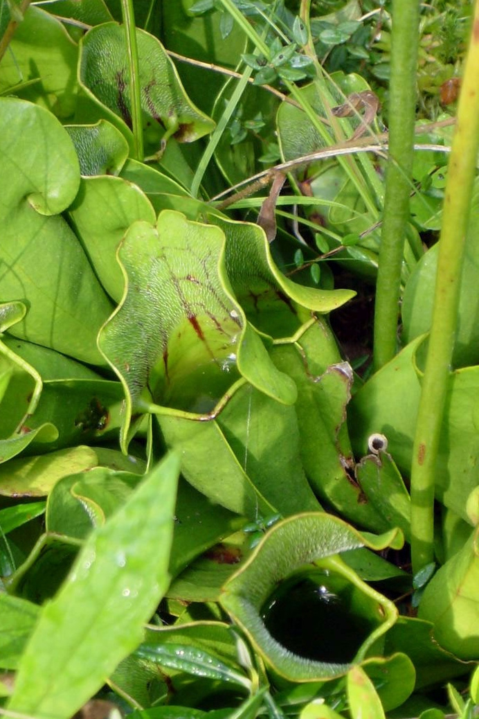 Pitcher plant (Sarracenia purpurea) in Acadia National Park, Maine, United States.